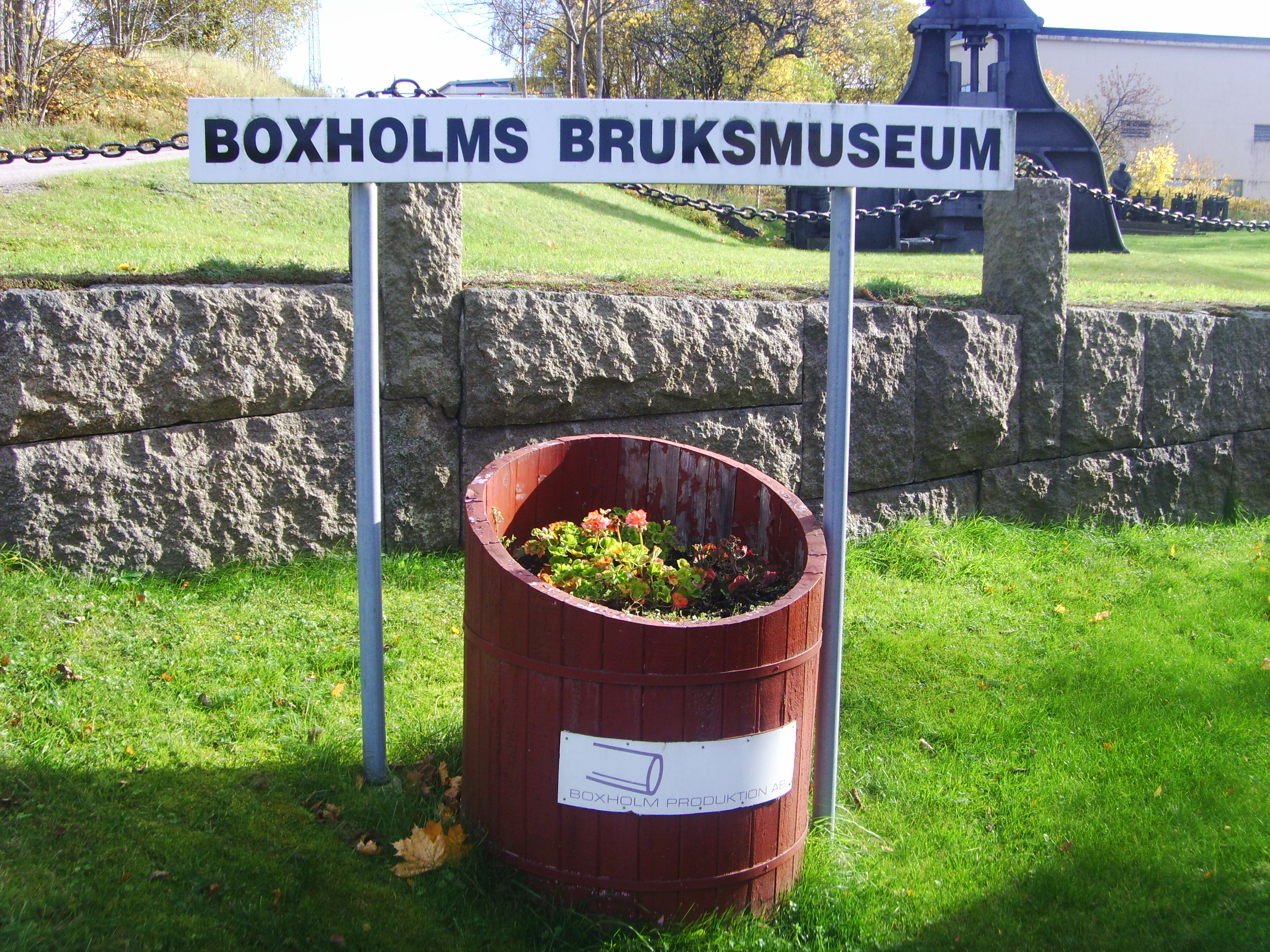 A picture from the Industrial Museum (a old watermill from the year 1777) in Boxholm, Östergötland, Sweden.